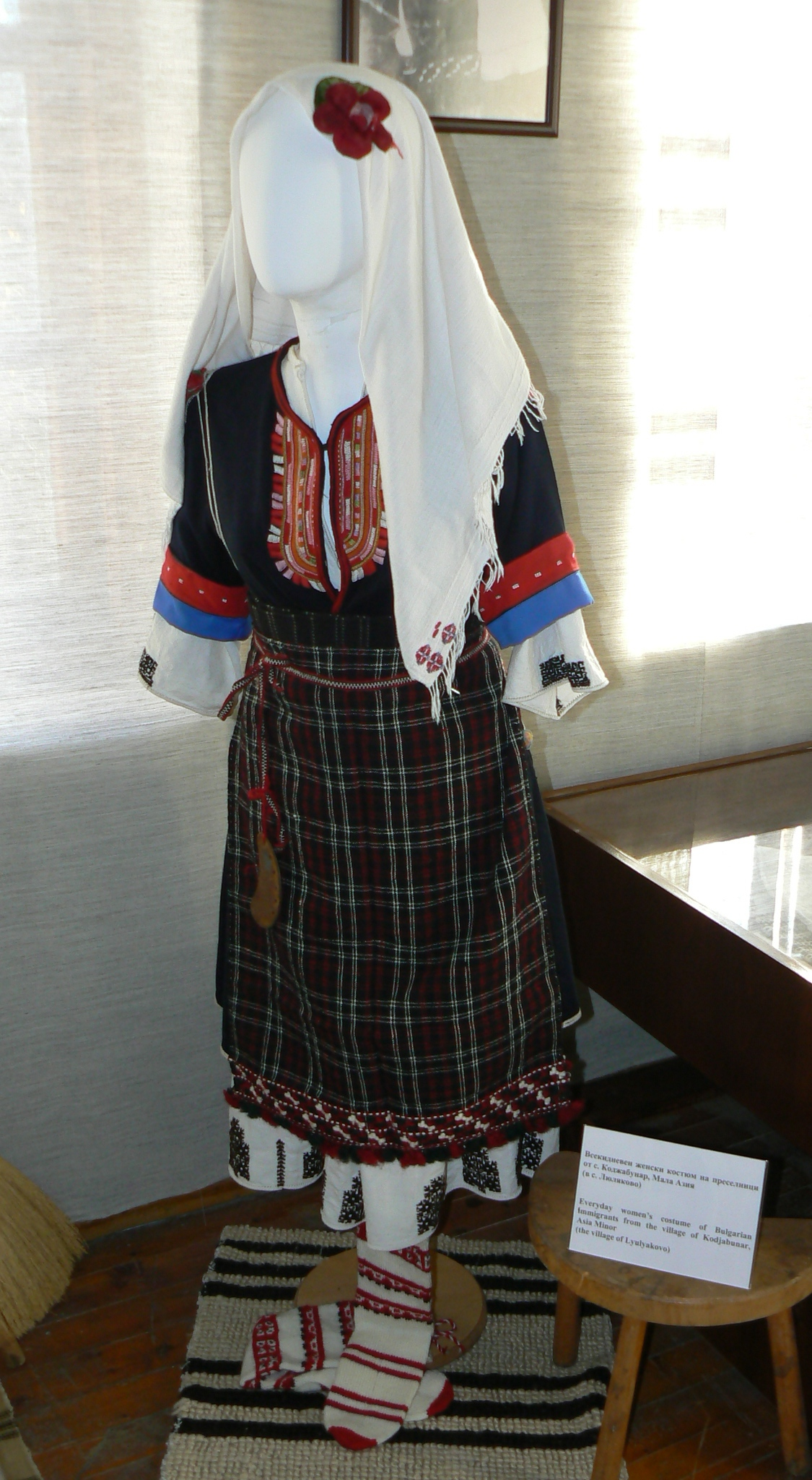 Traditional female costume from village Lyulyakovo, Burgas ethnographic museum